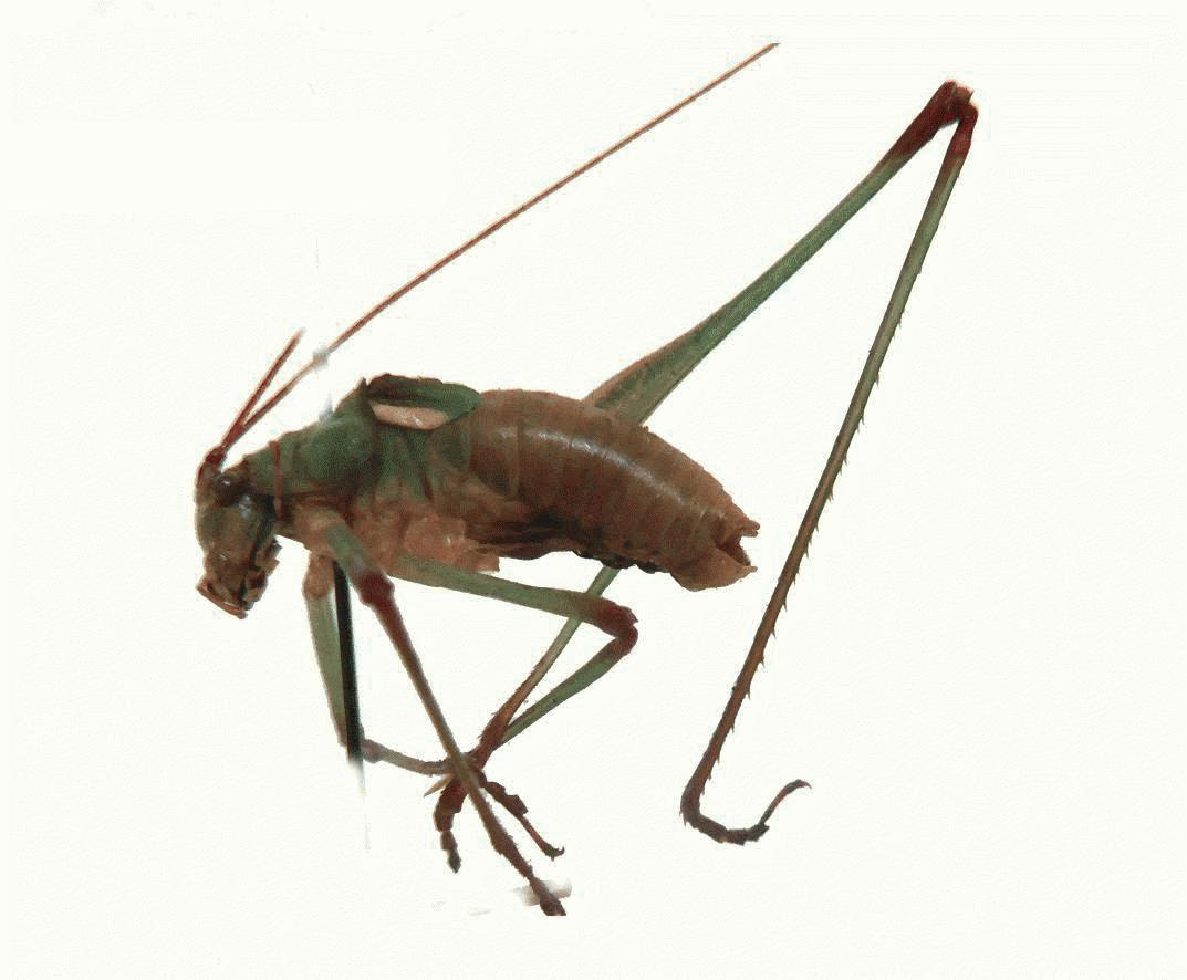 ZooKeys - Atlasacris brevipennis Cut-out from original (Atlasacris and Arostratum anatomy.jpg) shown below